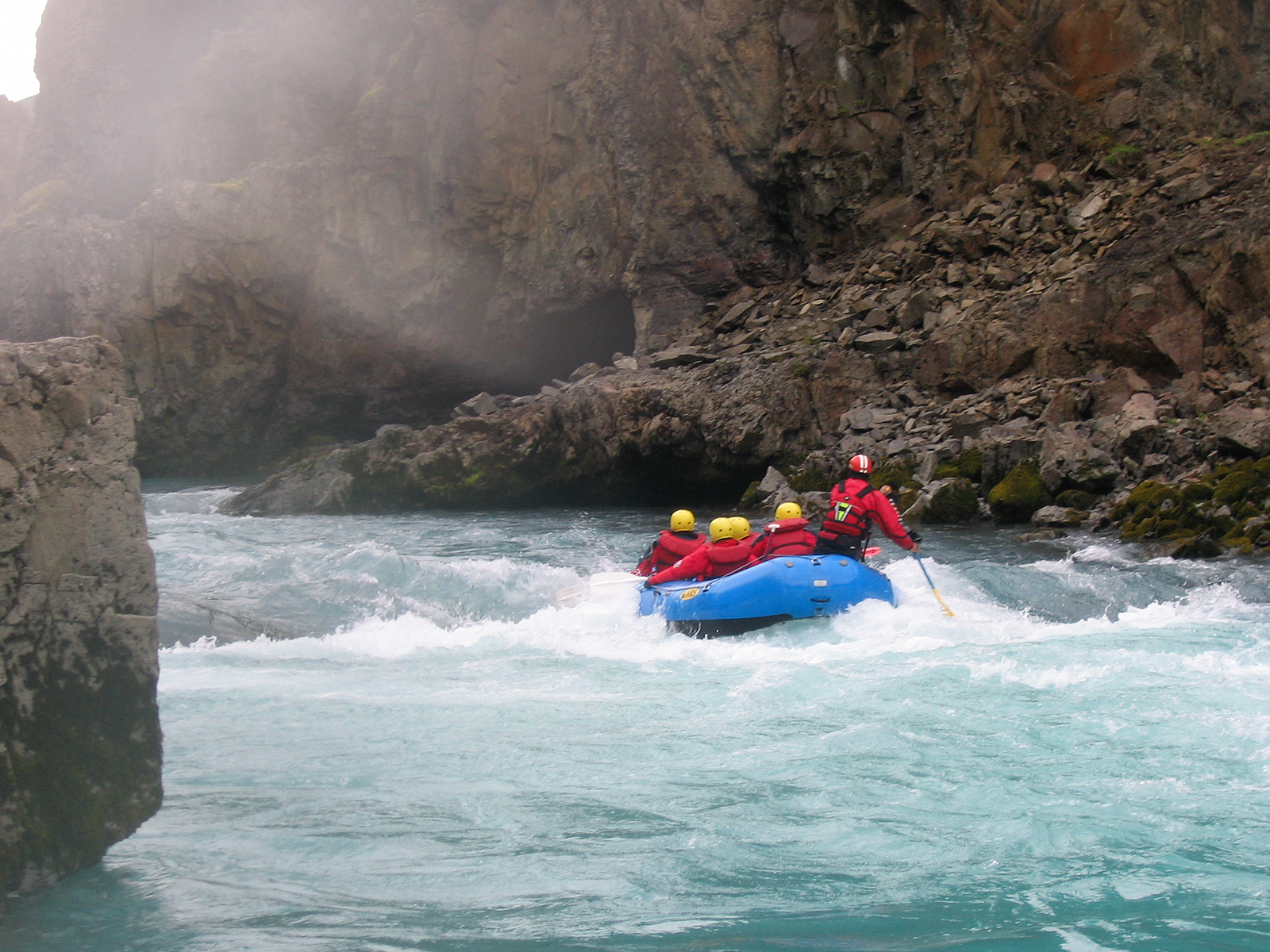 Riding on a "strømhvirvel"(?). Jim pressed the shutter...